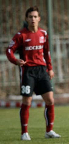 Sergei Shudrov as a player of FC Moscow Youth